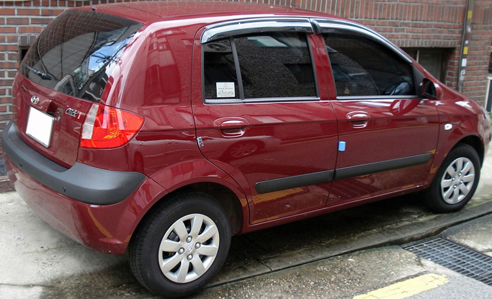 Hyundai New Click